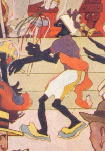 Drawing of a black candomber playing a masacalla. Cover on Newspaper "Caras y caretas". 24 November, 1917. Buenos Aires.